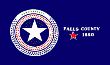 Flag of Falls County, Texas.